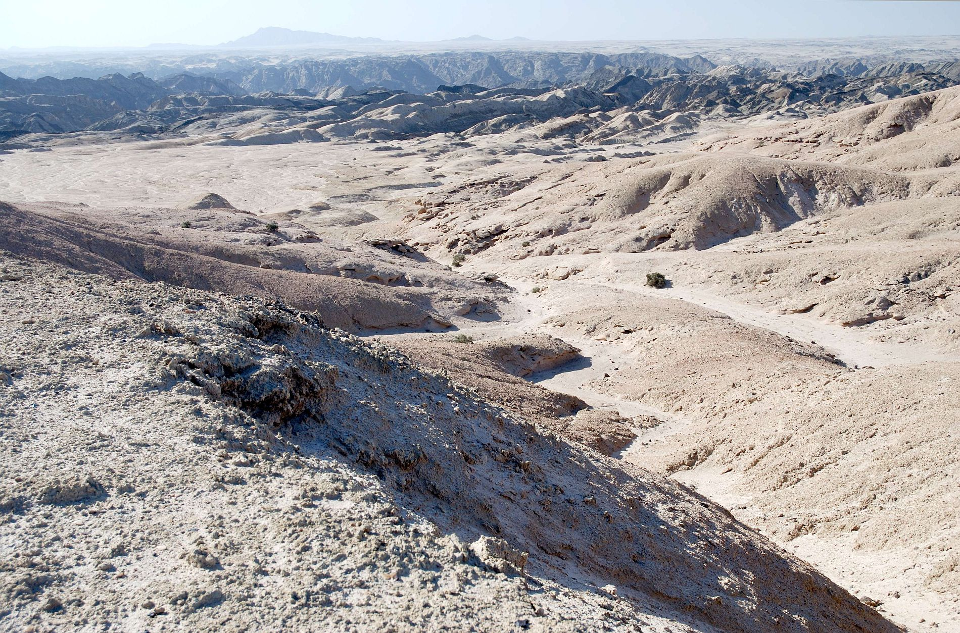 The "Moon Valley", aka "Moonlandascape"/"Maanlandskap", Namib desert, Namibia